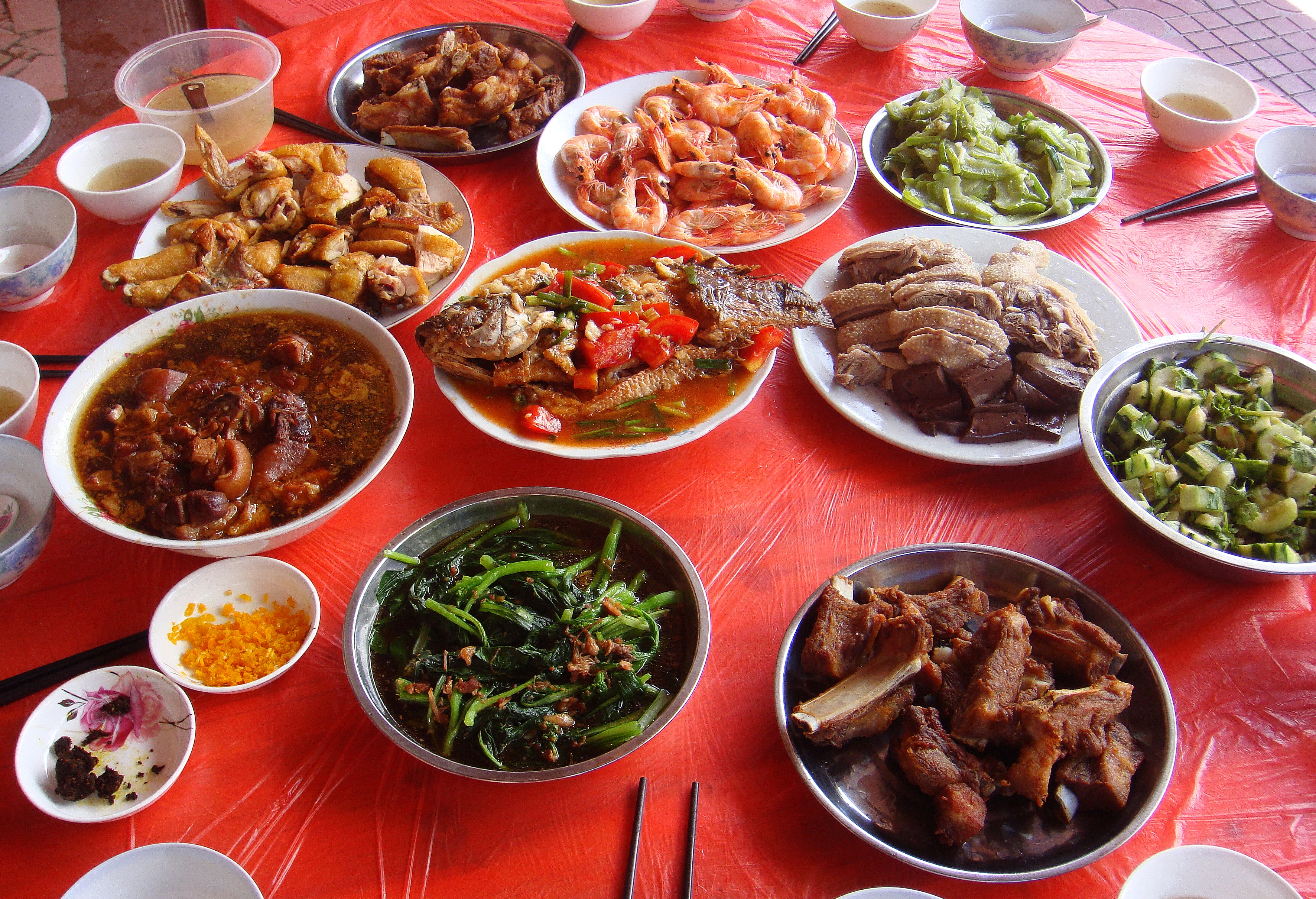 Typical Hainan lunch